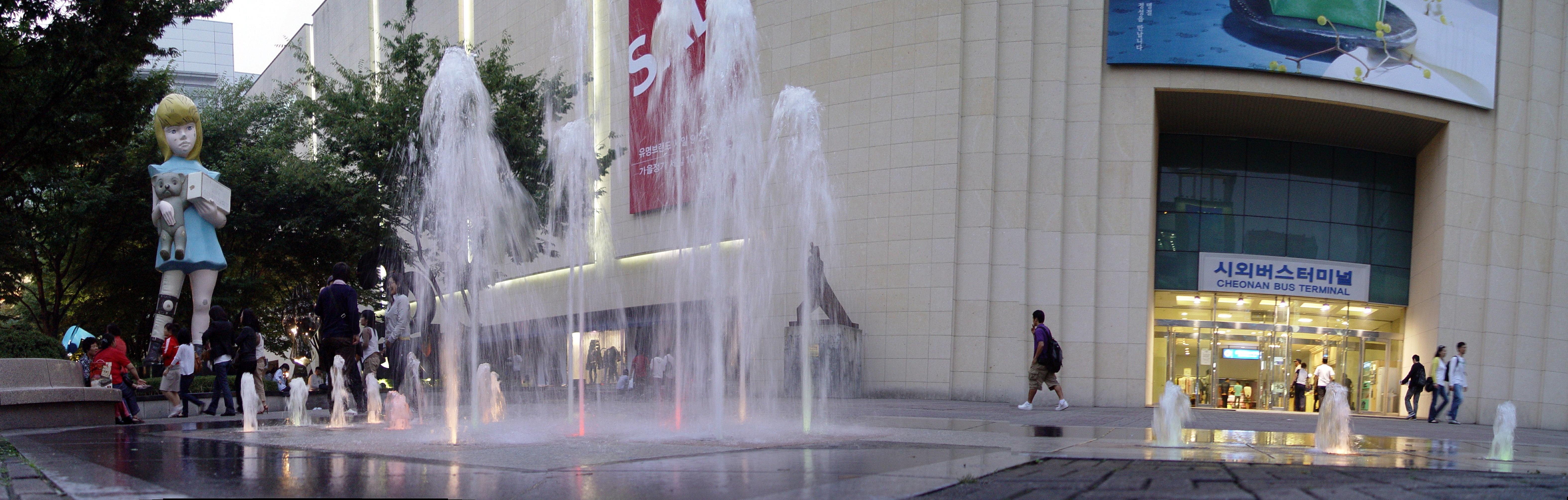 Fountains outside Cheonan Bus Terminal